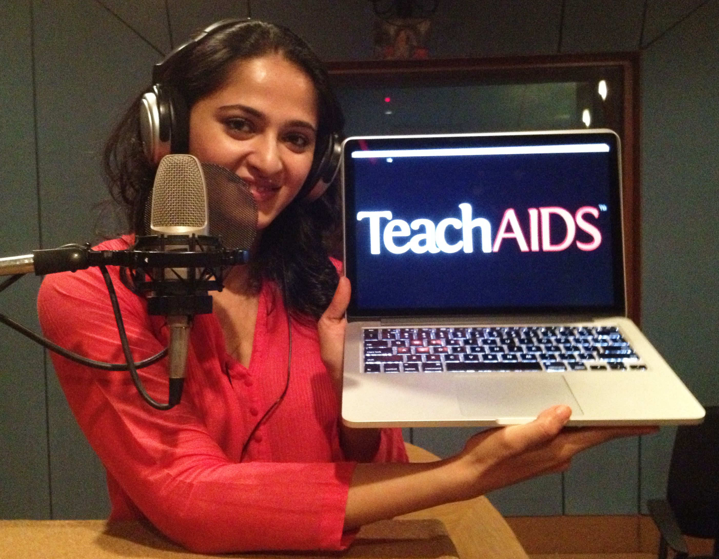 Actress Anushka Shetty records her voice for the TeachAIDS animations at Annapurna Studios in Hyderabad, Andhra Pradesh. She has donated her voice for the Tamil and Telugu language versions of the TeachAIDS materials. Photo credit: TeachAIDS